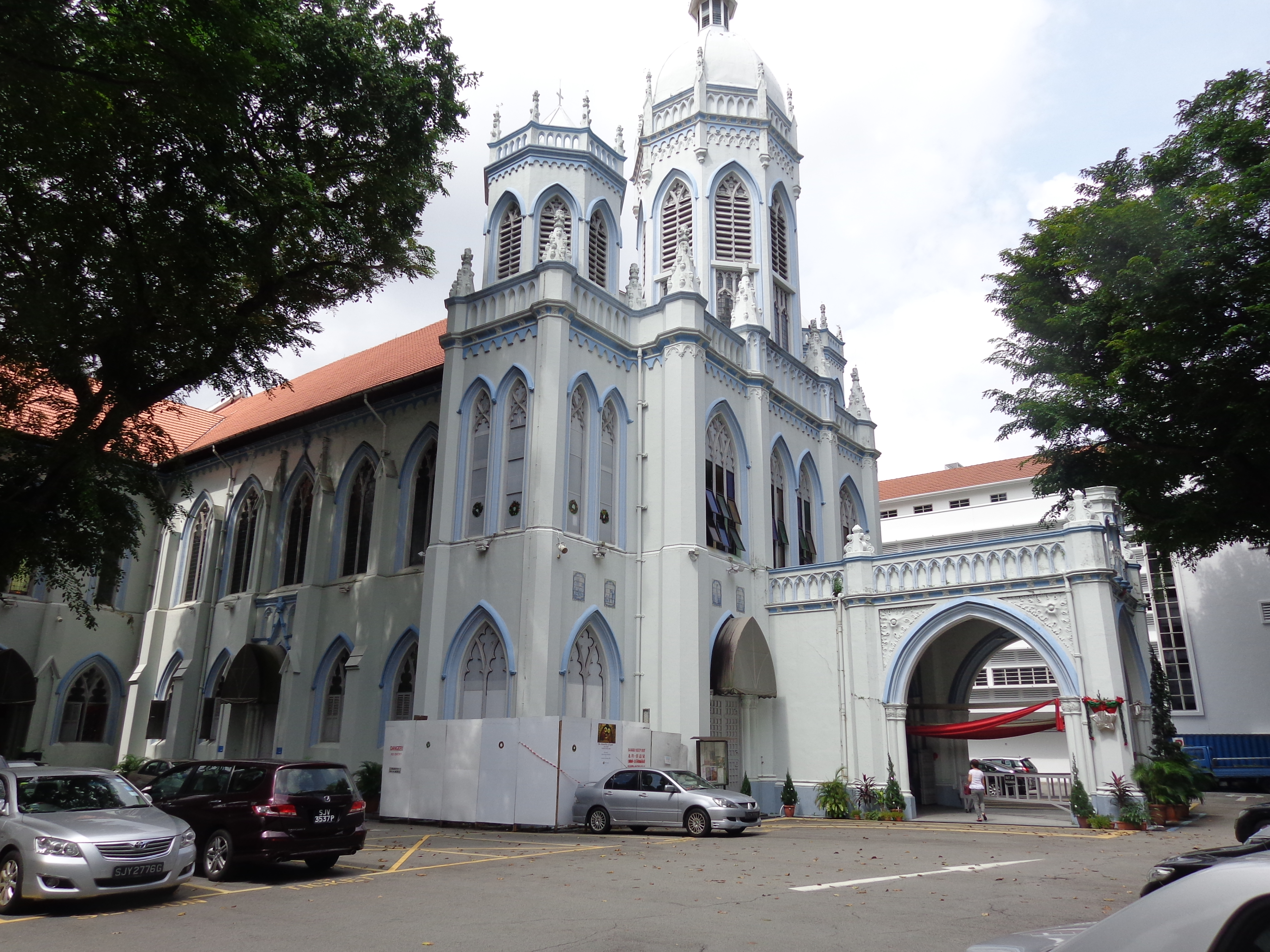 St. Joseph's Roman Catholoc Church Singapore